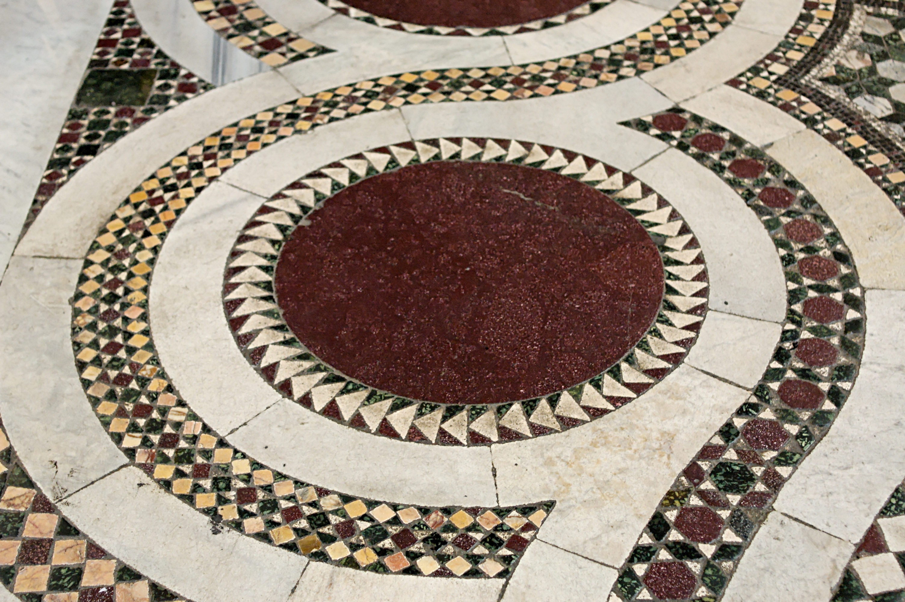 Cosmatesque pavement (12th century), central nave of the Basilica di Santa Maria Maggiore.